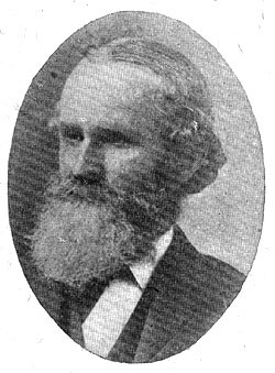 Thomas Bothwell Jeter (1827–1883), Governor of South Carolina.